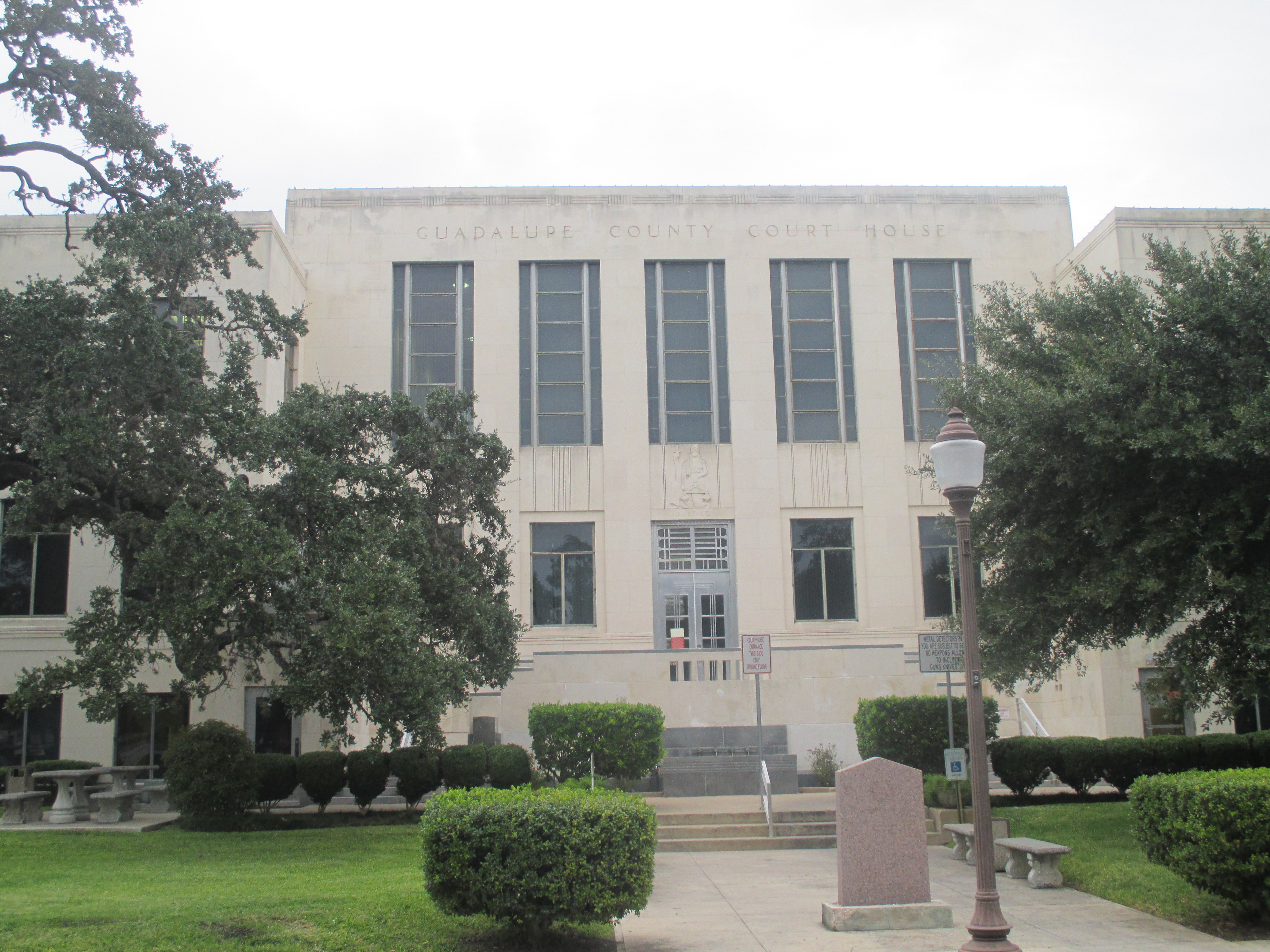 I took photo of Guadalupe County Courthouse in Seguin, TX.